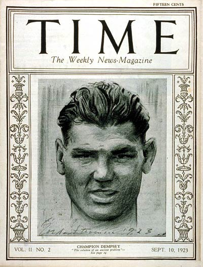 TIME Magazine Cover Featuring Jack Dempsey (10 Sep 1923)